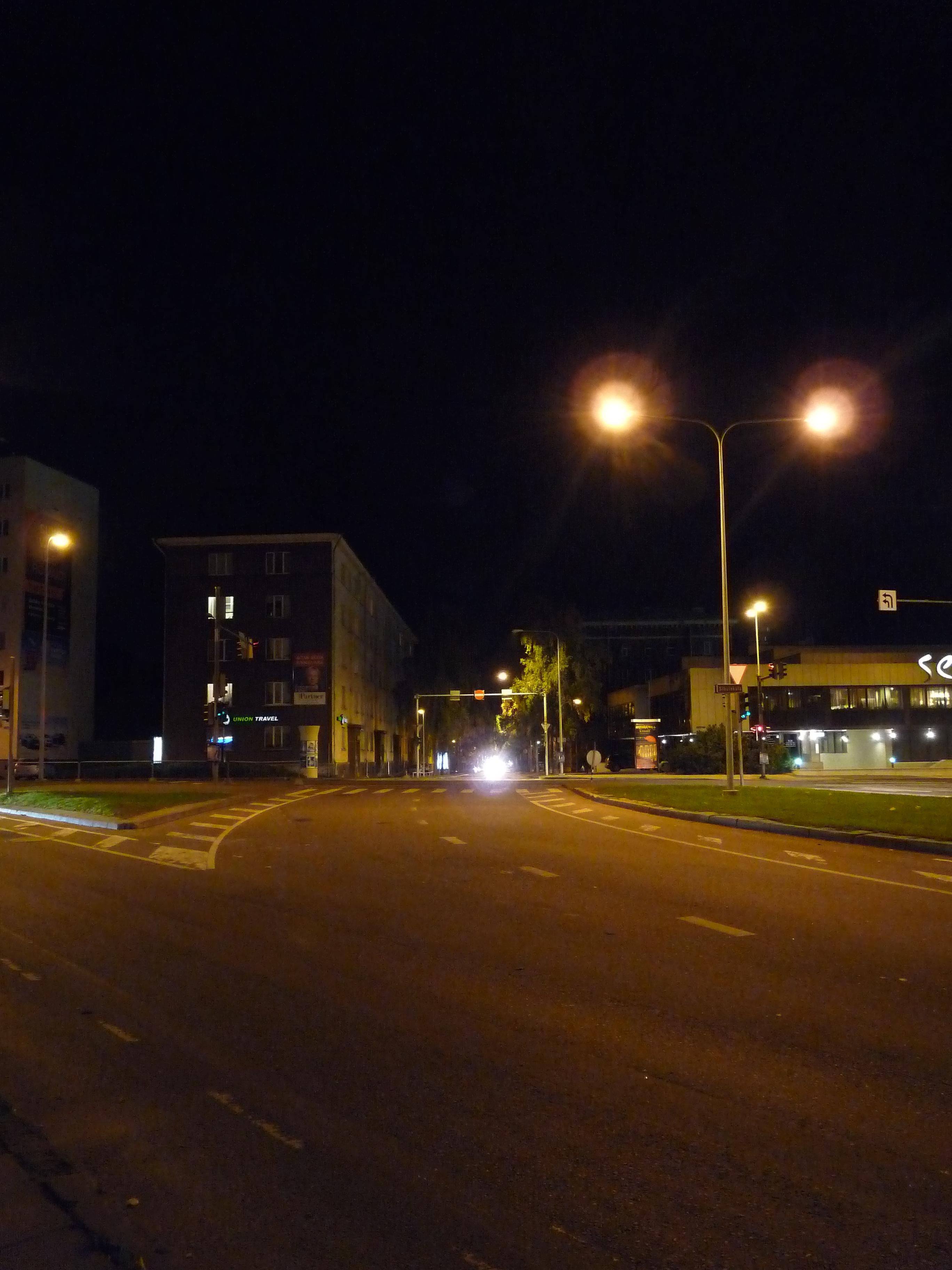 Sibulaküla